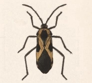 Biologia Centrali-Americana - Sephina vinula Cut-out from original (Biologia Centrali-Americana (8271464621).jpg) shown below